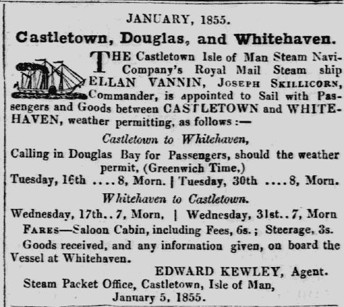 Advertisment for the services of the Ellan Vannin.